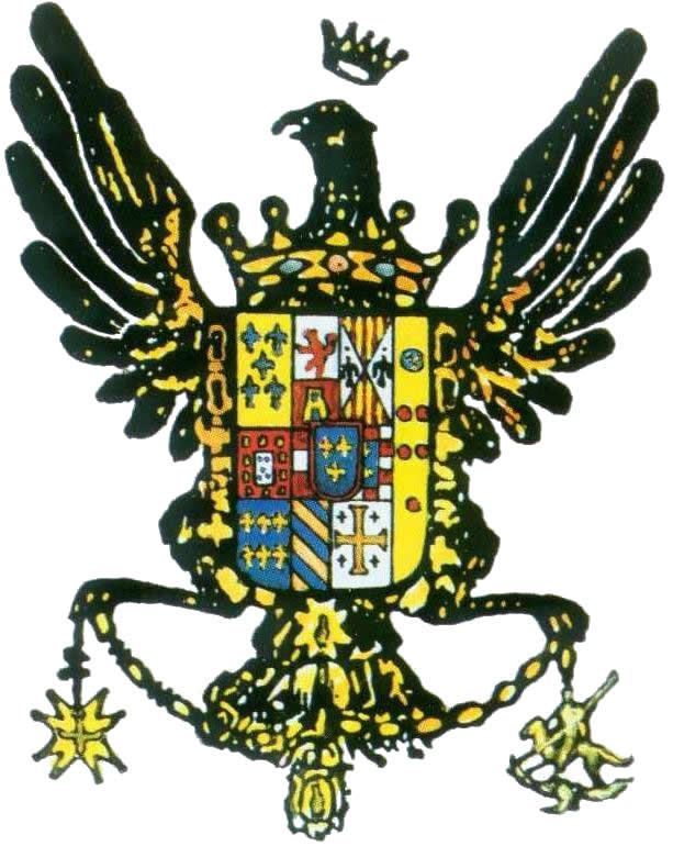 Coat of Arms of the Kingdom of Sicily by Ferdinand III of Bourbon, King of Sicily